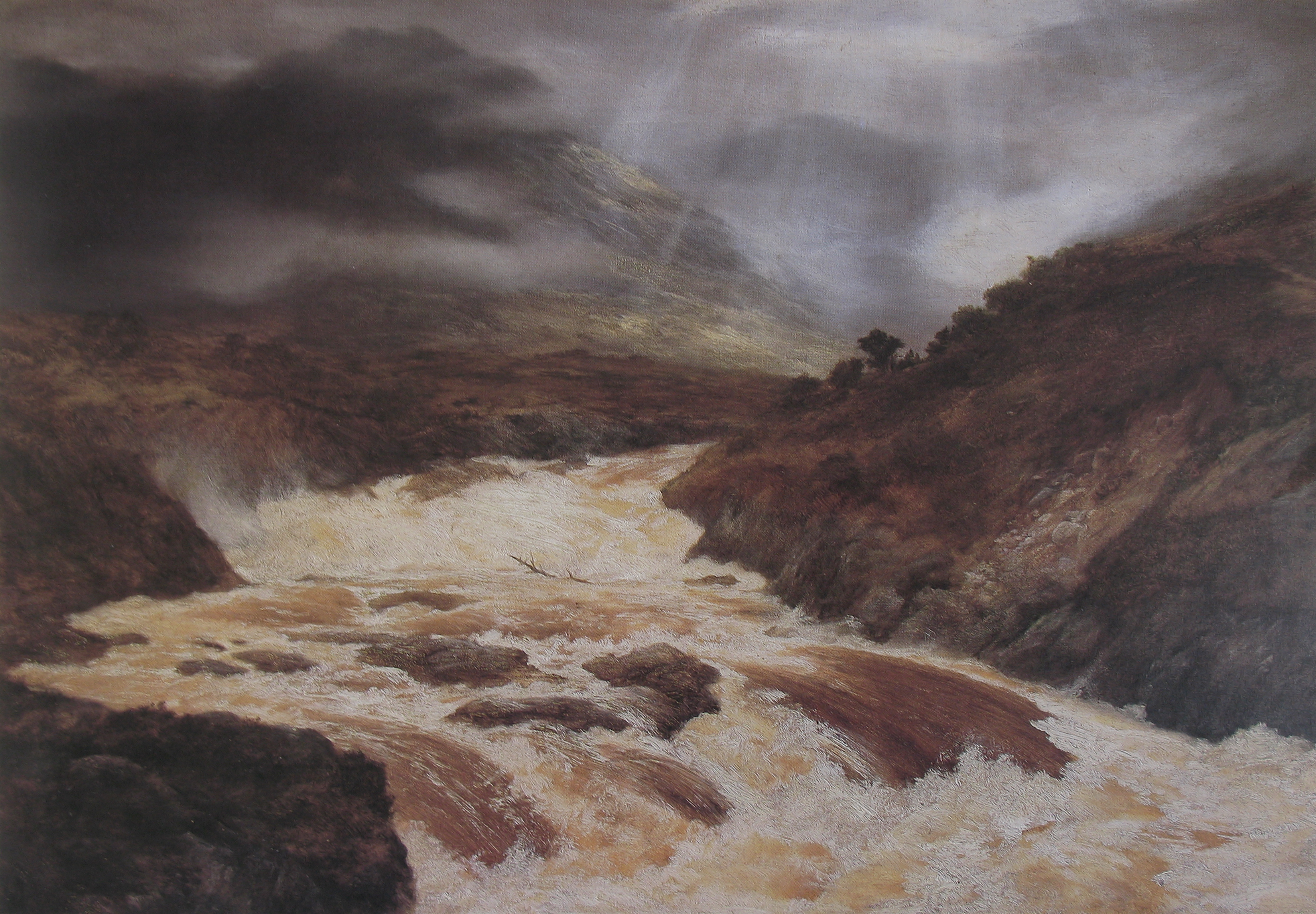 Spate in the Highlands; Oil on canvas, 49.5 x 75 cm